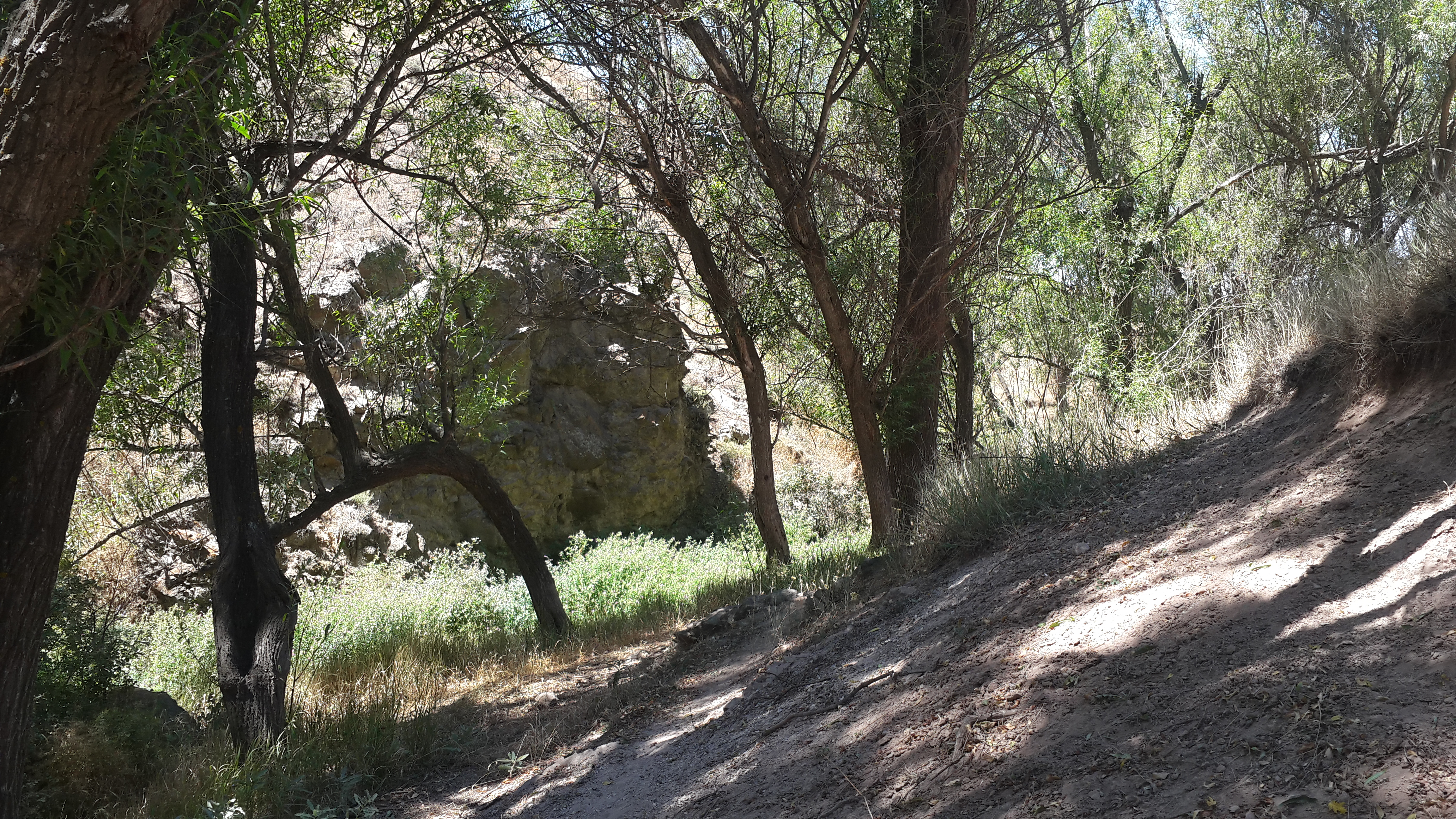 way of Abazar river